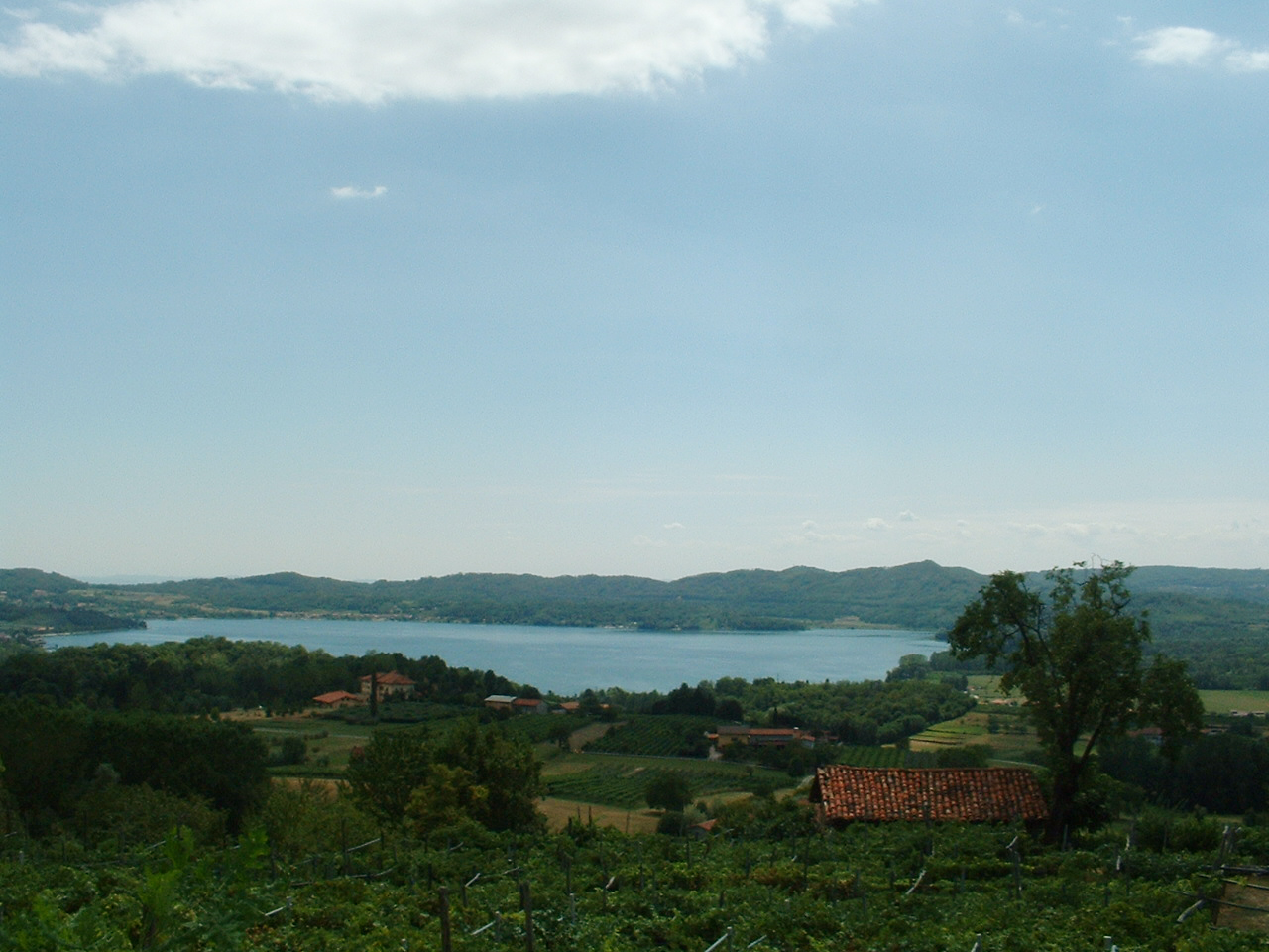 Lach ëd Vivron (Viverone lake) This is a photography of Natura 2000 protected area with ID IT1110020